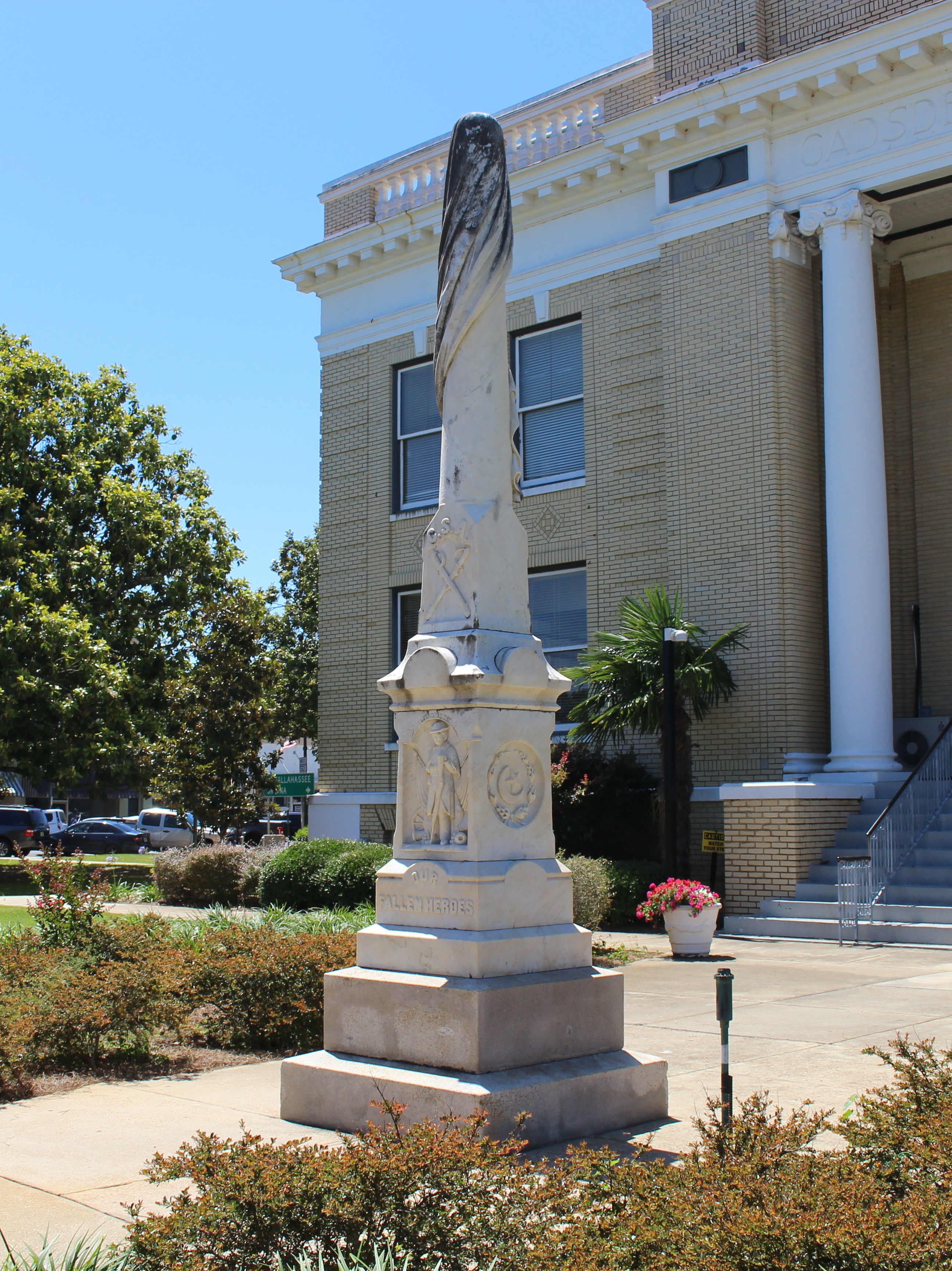 Confederate Monument in Quincy, Gadsden County, Florida. This monument was removed from its current location on 6/11/2020.